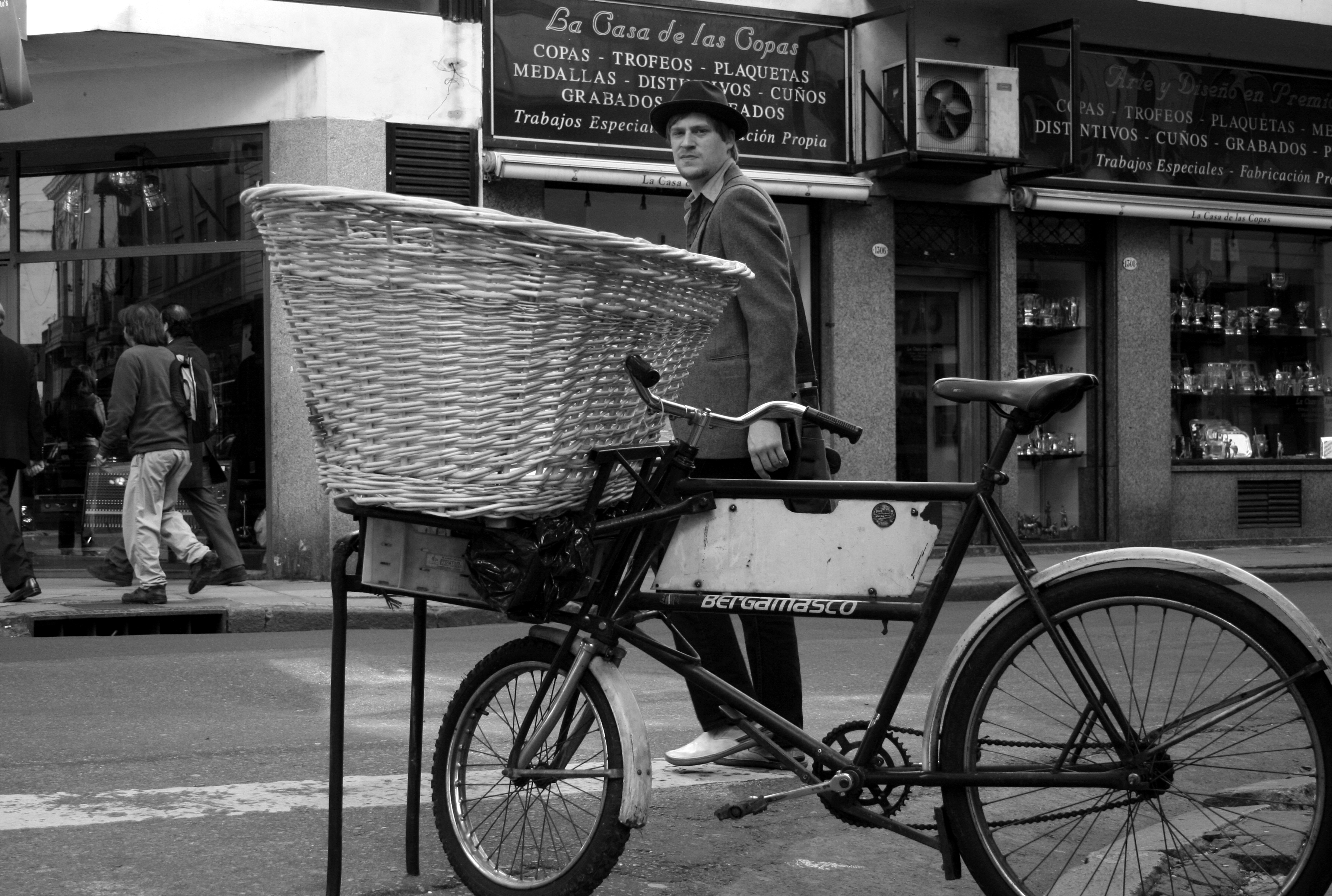 Delivery bike in Buenos Aires